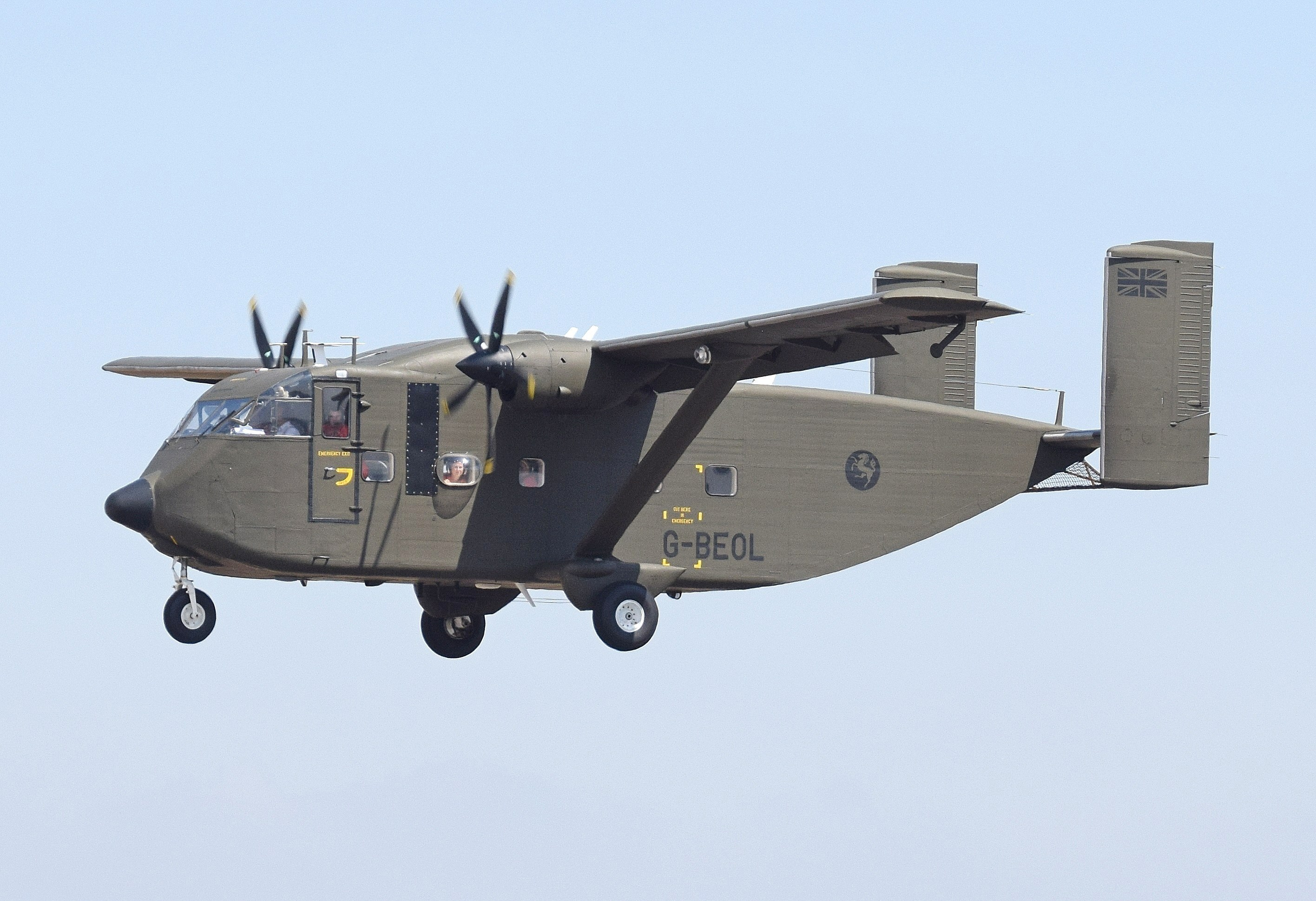 Short Skyvan SC.7 (G-BEOL) departs the 2018 Royal International Air Tattoo, RAF Fairford, England. Built 1977.